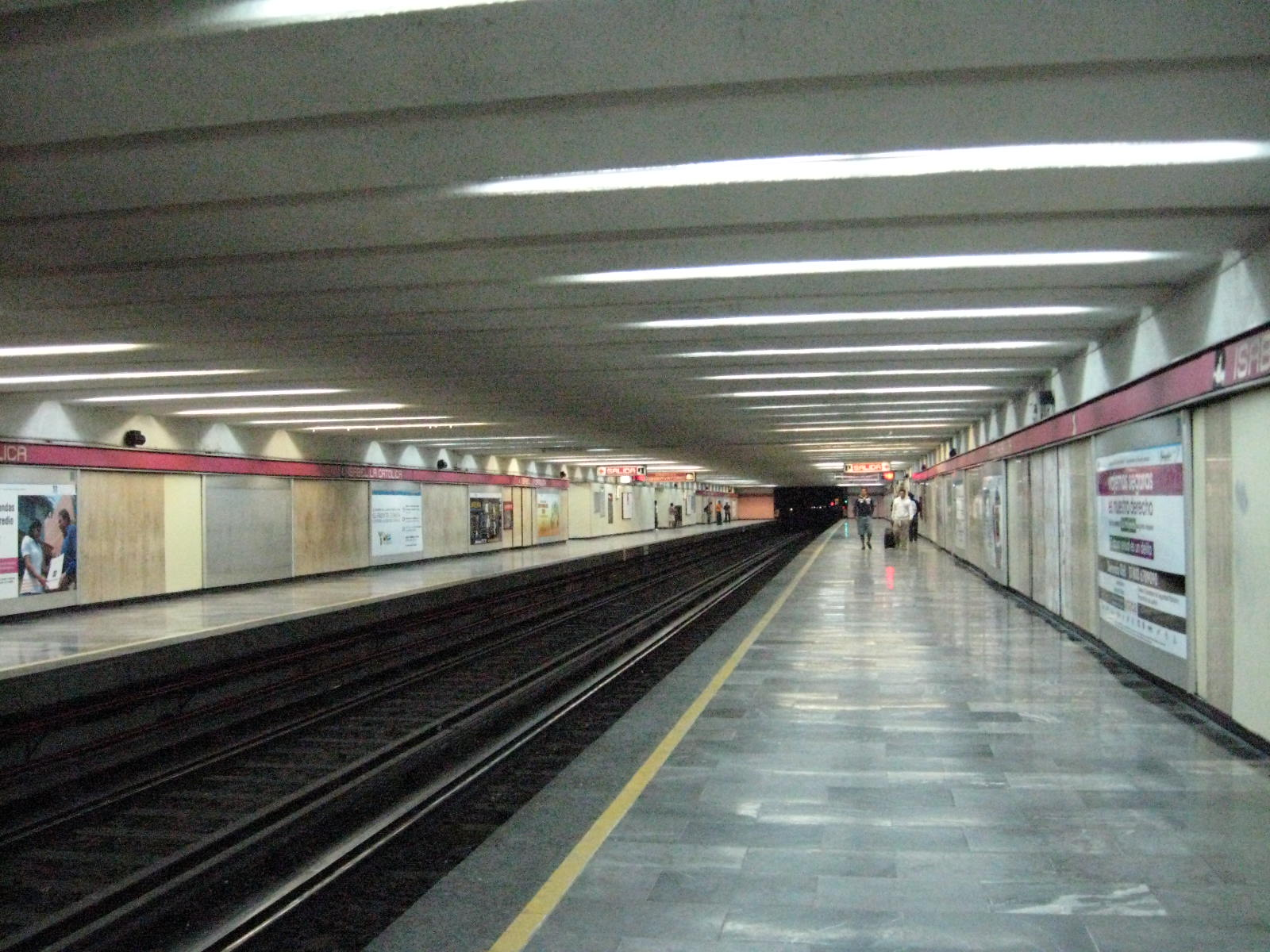 Platforms of Metro Isabel la Catolica of Line 1 of the Mexico City Metro system